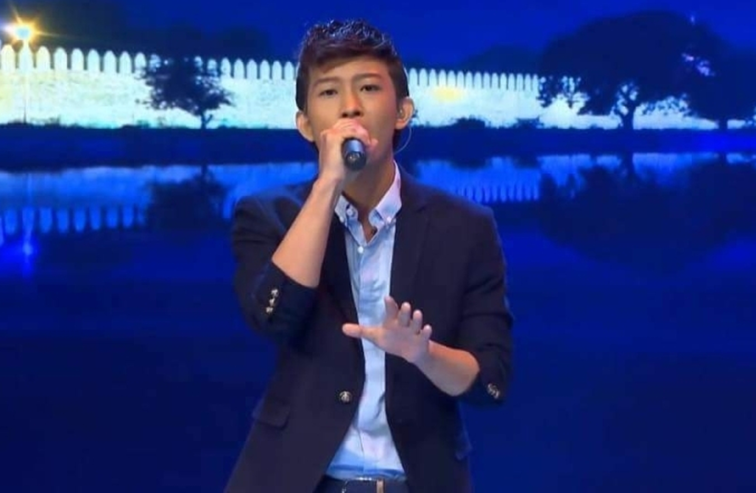 Singer M Zaw Rain performed in Mandalay elite show.